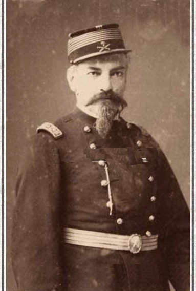 Marco Aurelio Arriagada